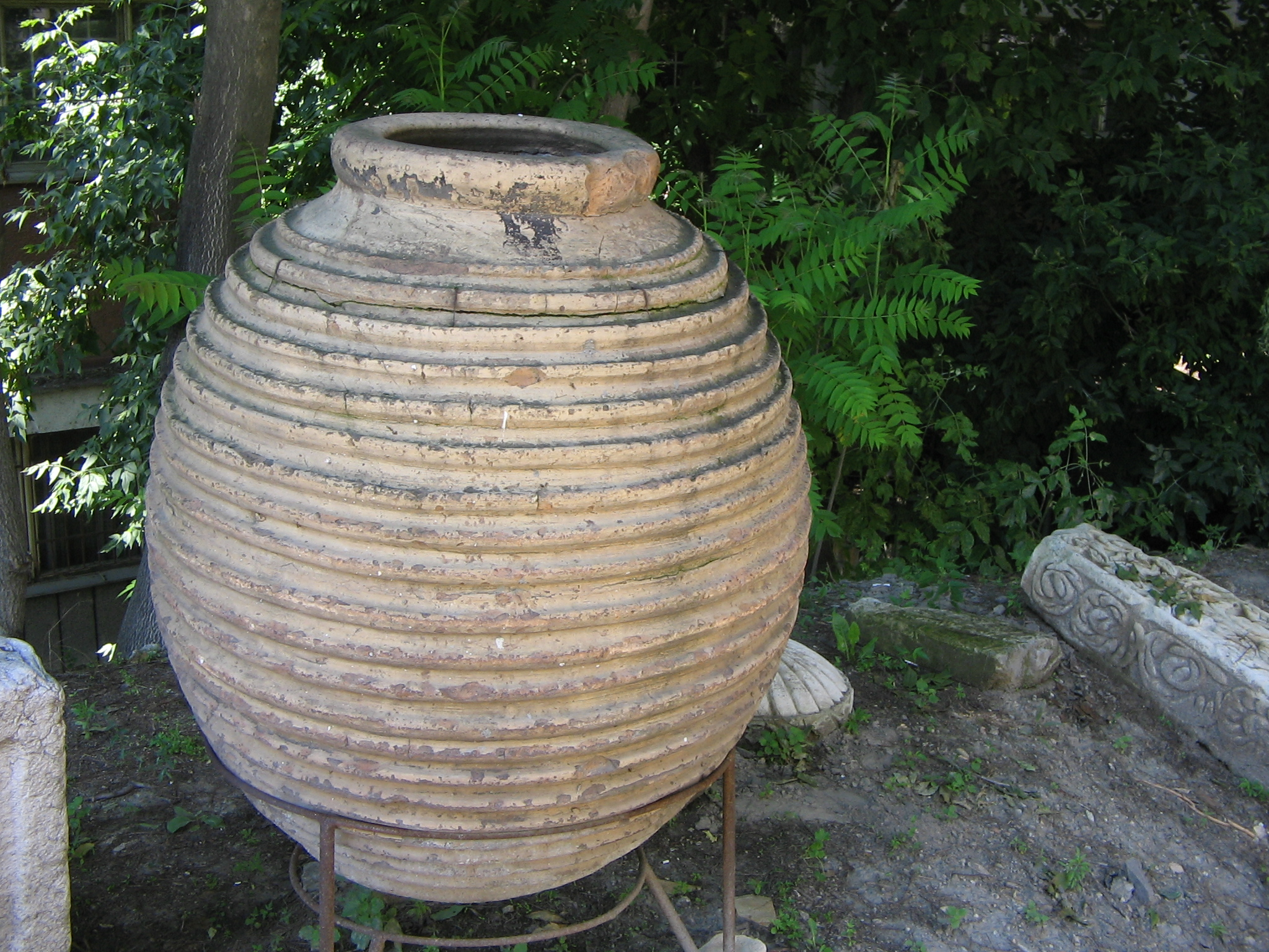 Ancient Roman pot — from the Sexaginta Prista castle ruins archaeological site, in Rousse, Bulgaria.